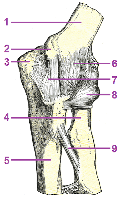 Numbered version of Gray329.png